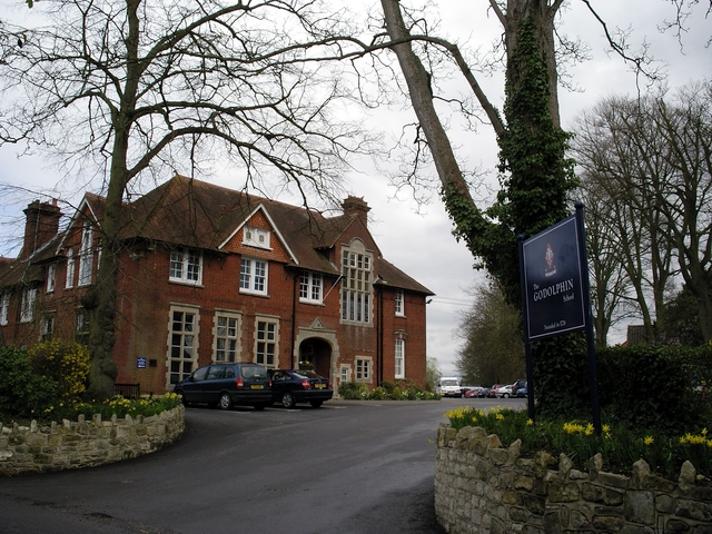 The Godolphin School A girl's public school in Salisbury.